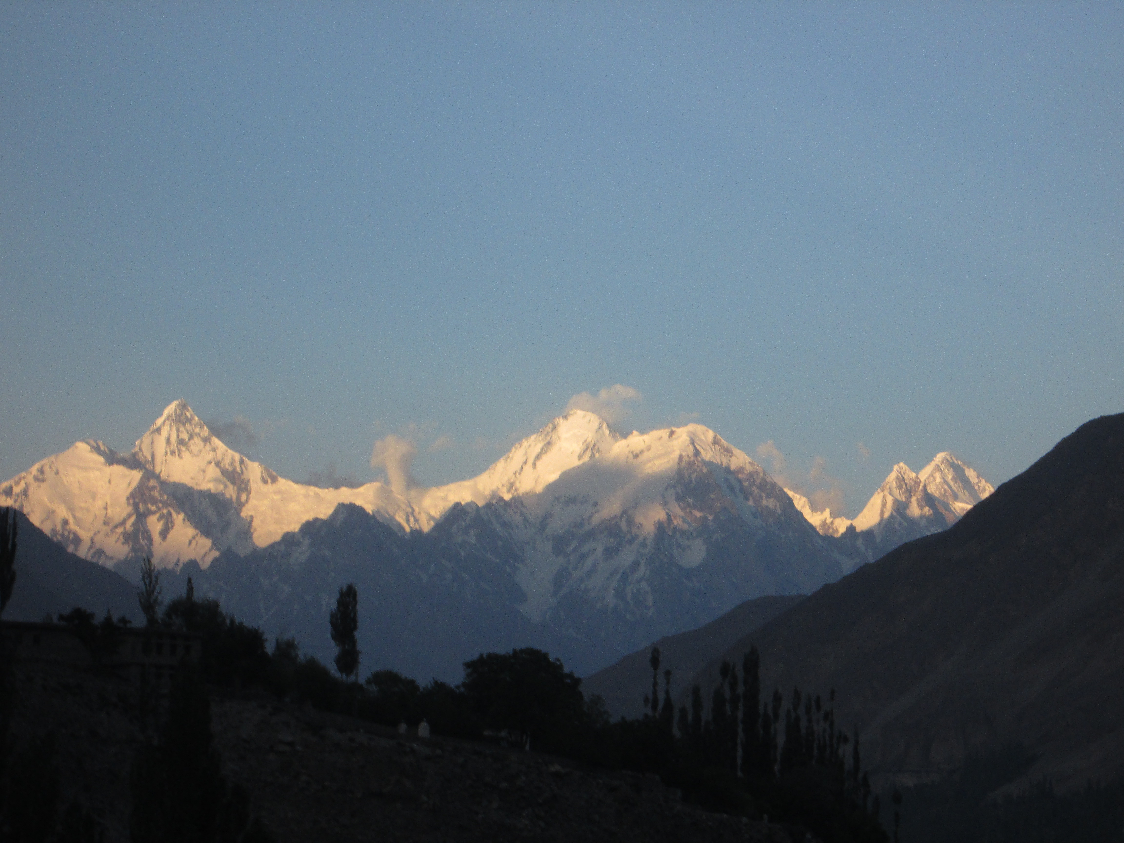 Sleeping beauty in Hunza nagar when going towards sust from nasirabad village. The westernmost 7000ers of the Hispar Muztagh subrange of the Karakoram are visible: Lupghar Sar (7200 m), Momhil Sar (7343 m) and Trivor (7577 m) (left to right)